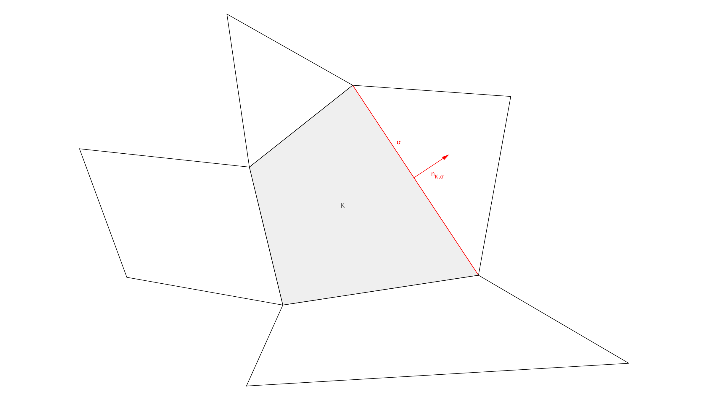 A unit vector normal to the surface K